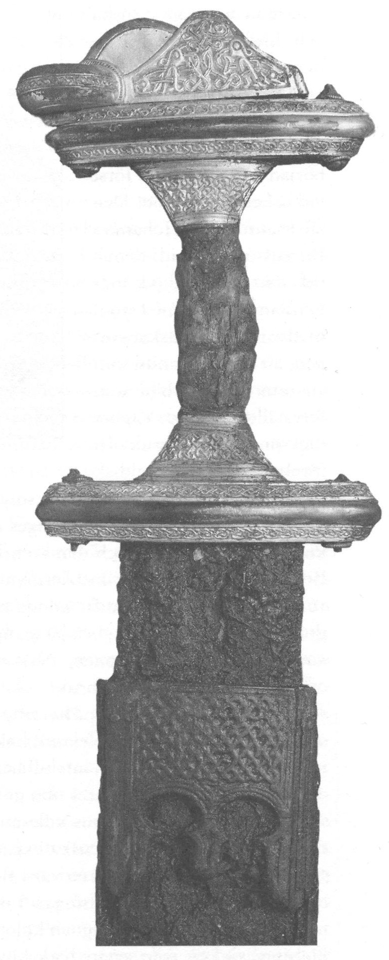 The best preserved sword from the early Middle Ages in Finland has been excavated in from a man grave on Papinmäki in Eura. The helve is decorated by Germanic animal ornamentation chased in gold and silver. Also the shethe has been decorated in an artistic way.